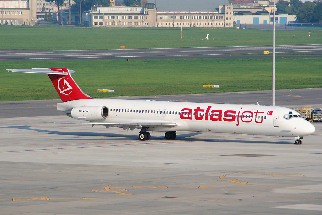 McDonnell Douglas MD-83 TC-AKM at Warsaw-Frederic Chopin airport